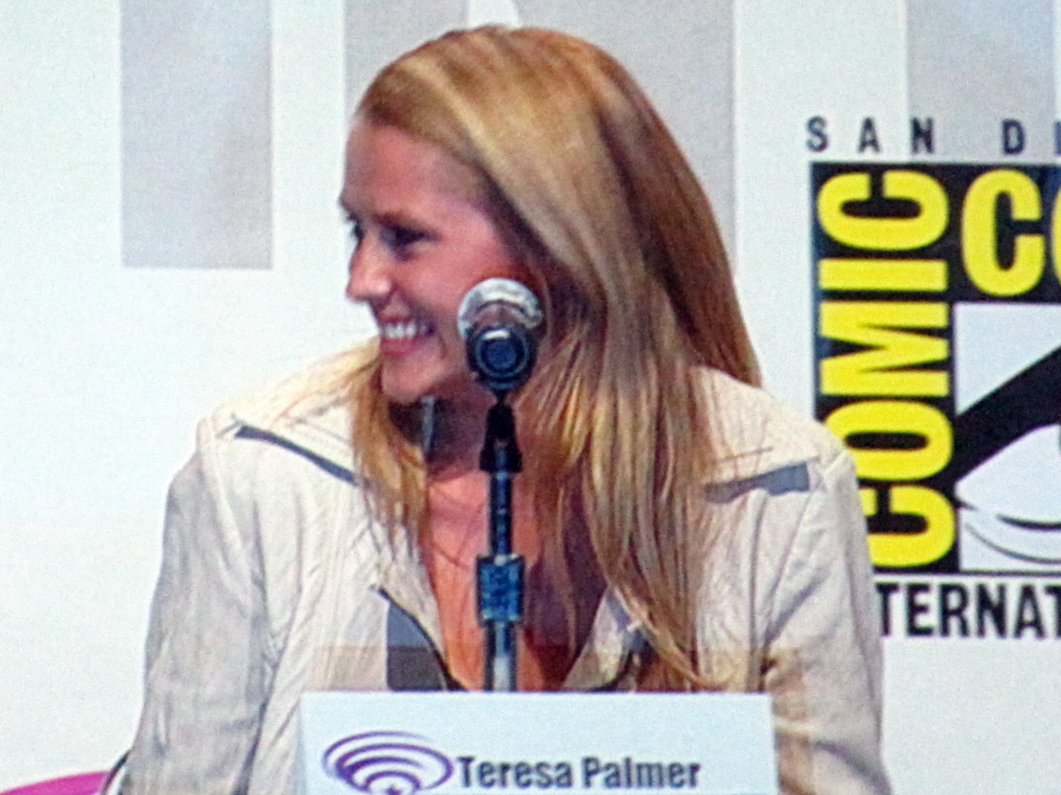 Actress Teresa Palmer participating in the The Sorcerer's Apprentice panel at WonderCon 2010.